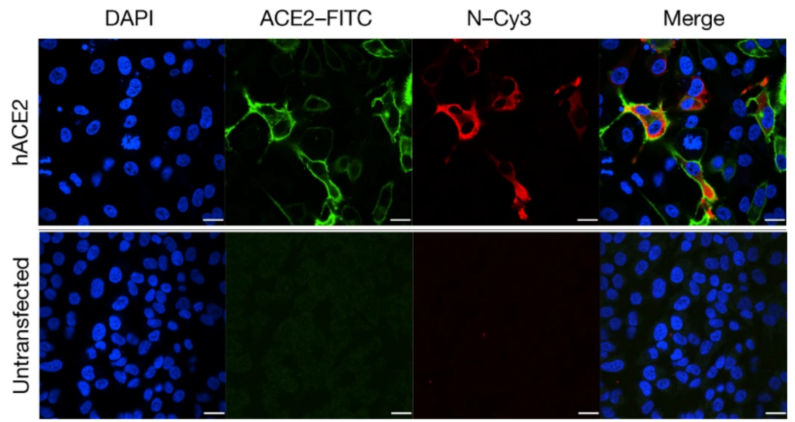 Adapted from figure from Zhou et al, 2020 . Figure description (adapted): Determination of virus infectivity in HeLa cells that expressed or did not express (untransfected) ACE2. The expression of ACE2 plasmid with S tag was detected using mouse anti-S tag monoclonal antibody. hACE2, human ACE2; Green, ACE2; red, viral protein (N); blue, DAPI (nuclei). Scale bars, 10 μm.